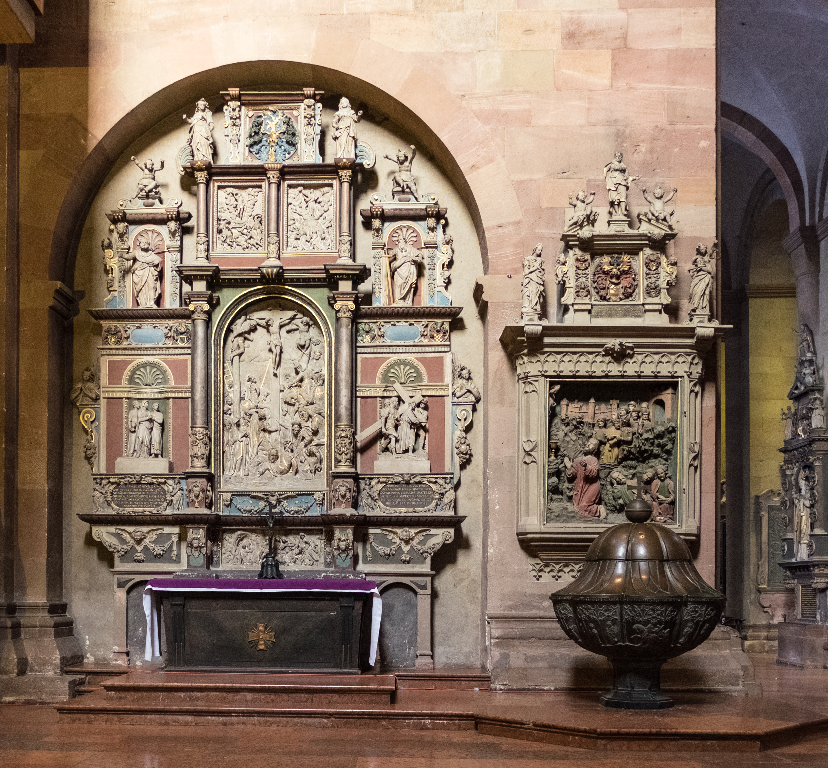 The altar of the family of Nassau in Mainz cathedral. The altar was cut shortly after 1601 in Eifel tuff. It is still at the original location in the northern transept. Altars like these, here for the family of Nassau altar as an example, had been donated in the memory of the family. Benefices as an income, which were given a vicar who celebrated Mass for the dead are tied to the altar. In the cathedral 42 altars and 48 benefices existed in 1537. This altar was built in remembrance of the Imperial Council Philipp of Nassau-Spurkenburg (1582) and his brother, the Canon Henry of Nassau (1601). They were the last of their family before extinction, so the coat of arms of Nassau is on the top floor altar is upside down. The center focuses on the crucifixion of Christ. The baptistery is to be seen at the right.